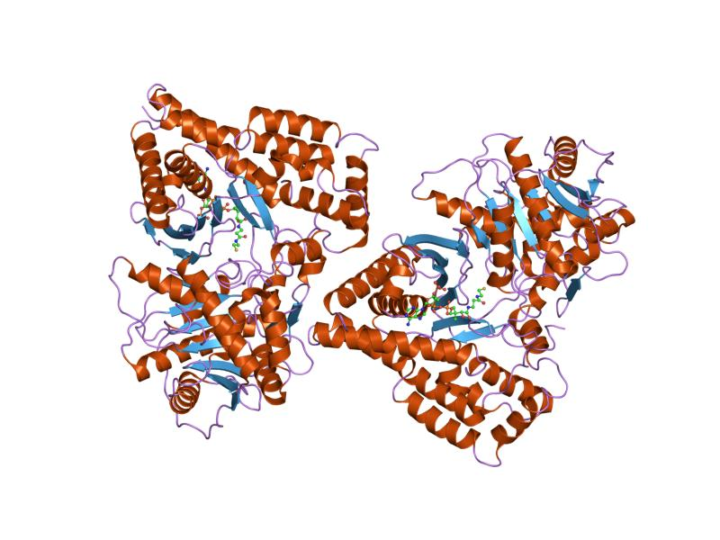 Cartoon representation of the molecular structure of protein registered with 1ndi code.